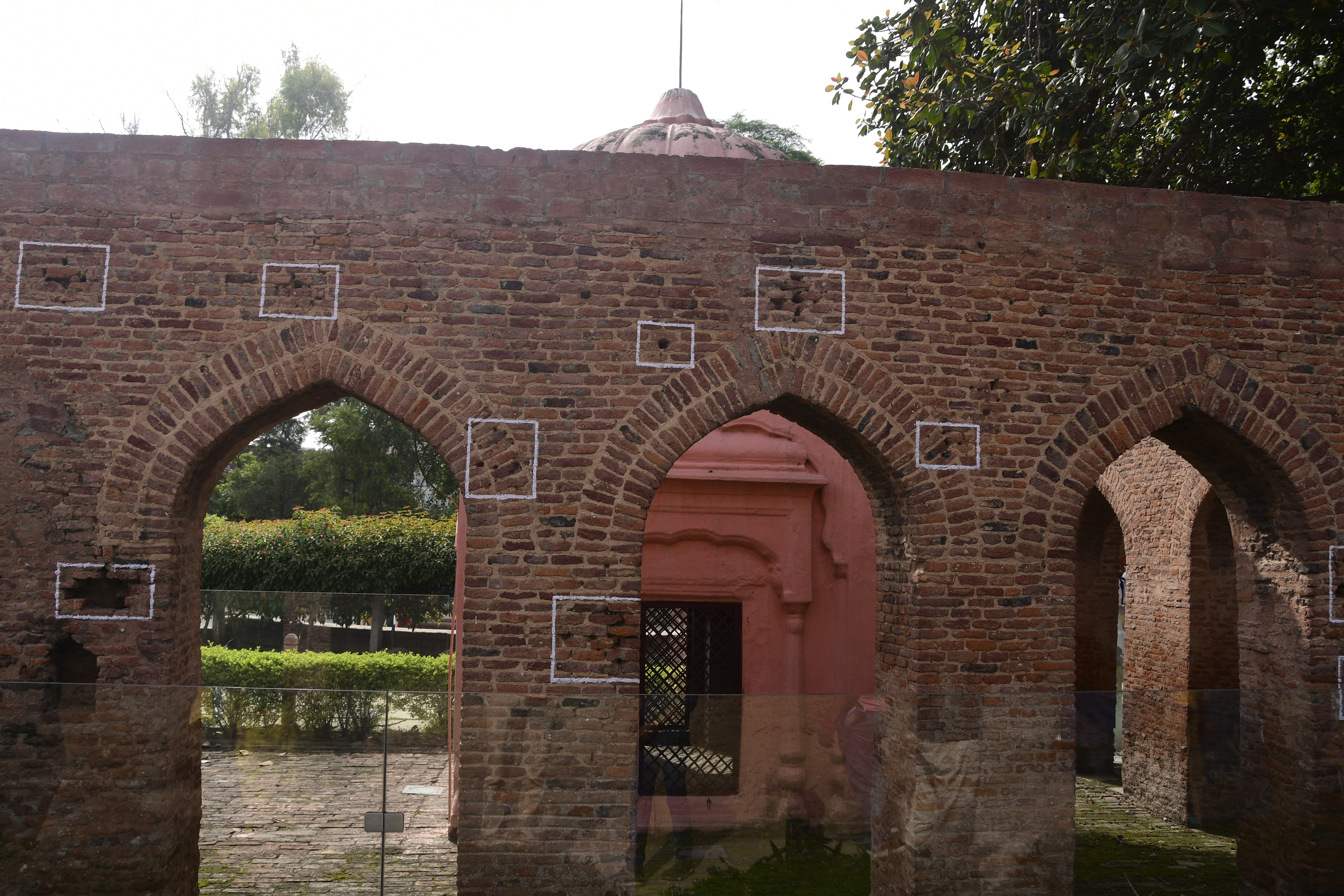 Jallianwala Bagh is a historic garden and ‘memorial of national importance’ in Amritsar, India, preserved in the memory of those wounded and killed in the Jallianwala Bagh Massacre that occurred on the site on the festival of Vaisakhi, 13 April 1919.